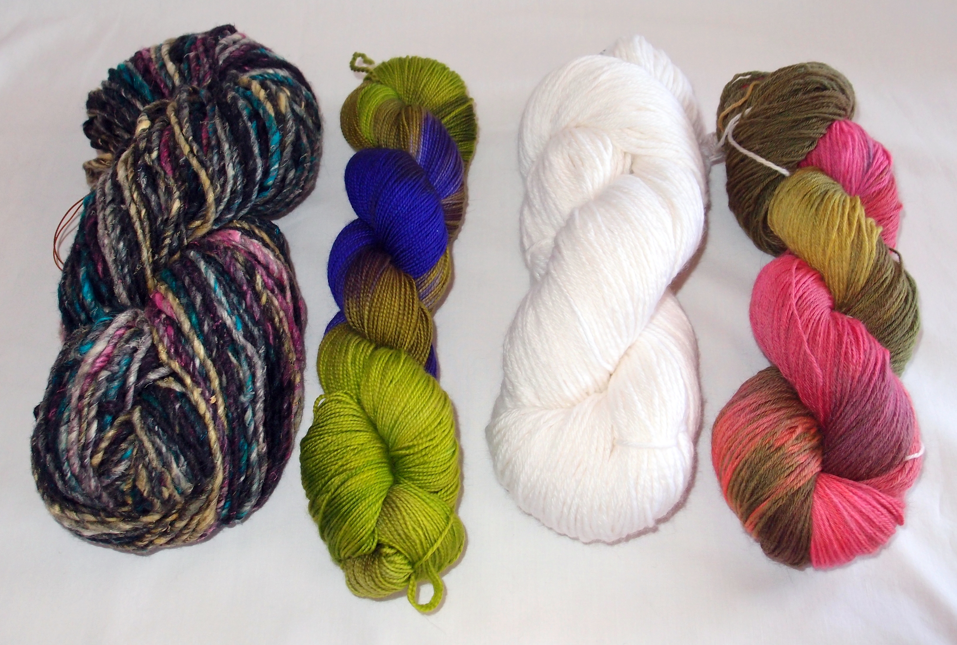 Twisted hanks or skeins of wool yarn. When opened, this is a circular shape.